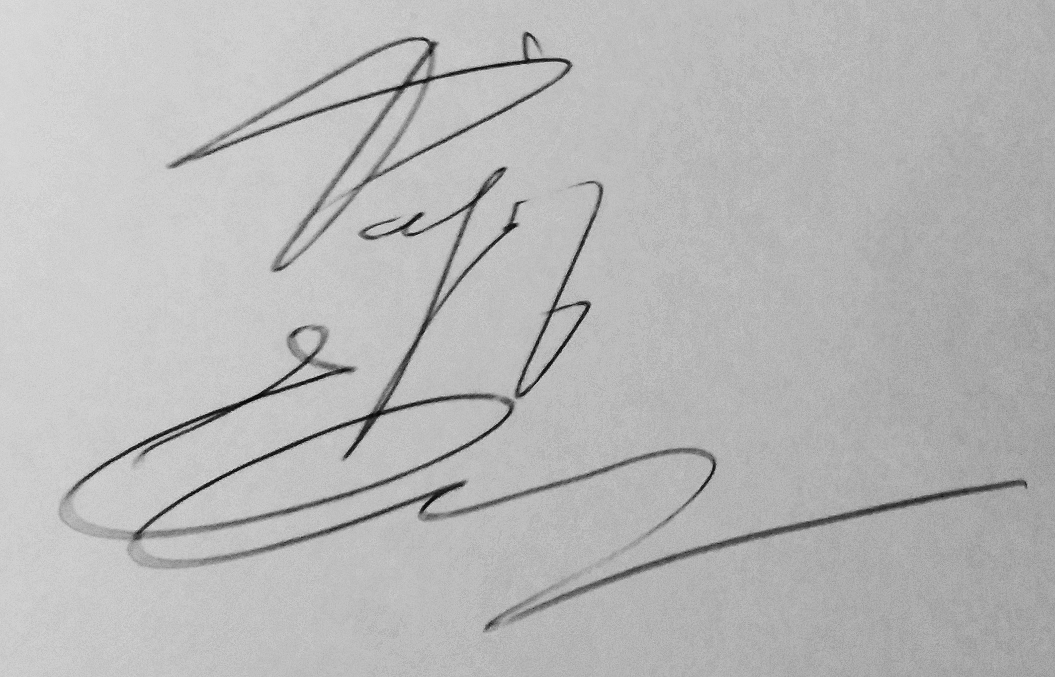 Signature of Fedor Emelianenko